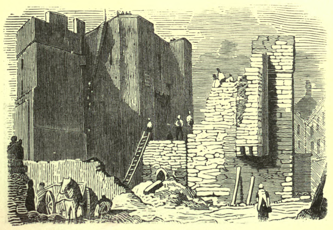 New Gate, Newcastle, England, demolition in 1823 - drawing.